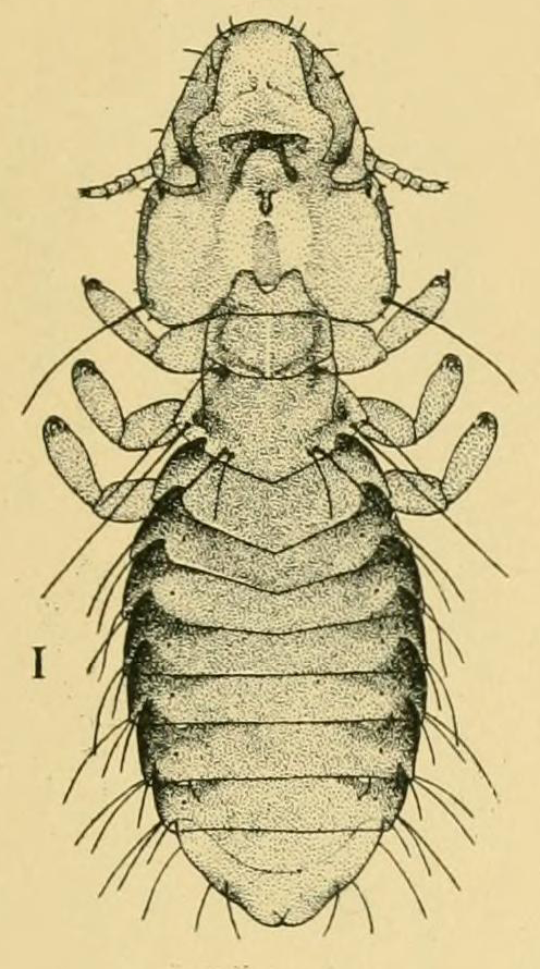 Female Rallicola (Rallicola) advenus (Kellogg, 1896) Labled as "Oncophorus advena.